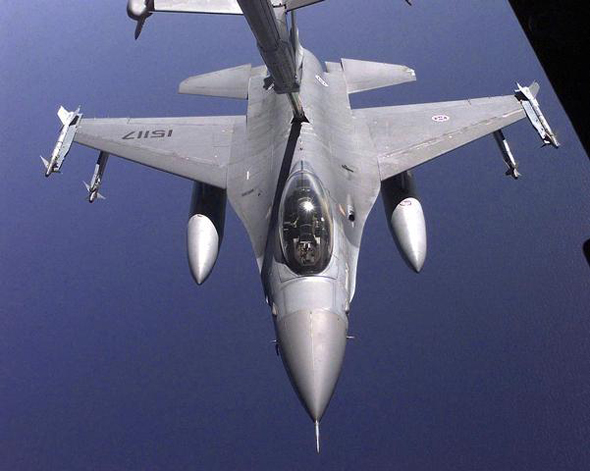 An F-16A from the Portuguese Air Force refueling from a KC-10 of the USAF.